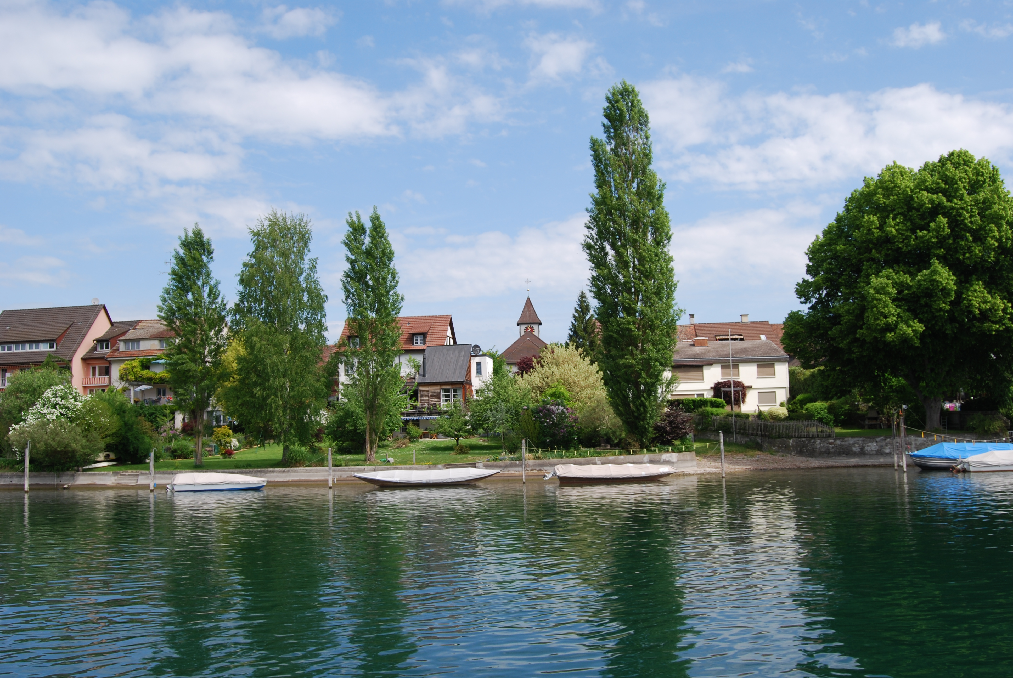 Büsingen am Hochrhein, Baden-Württemberg, Germany